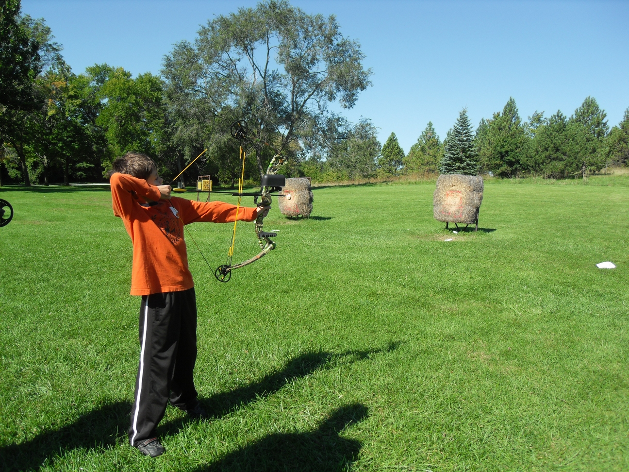 A boy with a compound bow in Milwaukee trying to hit a target from a 10 yards distance.